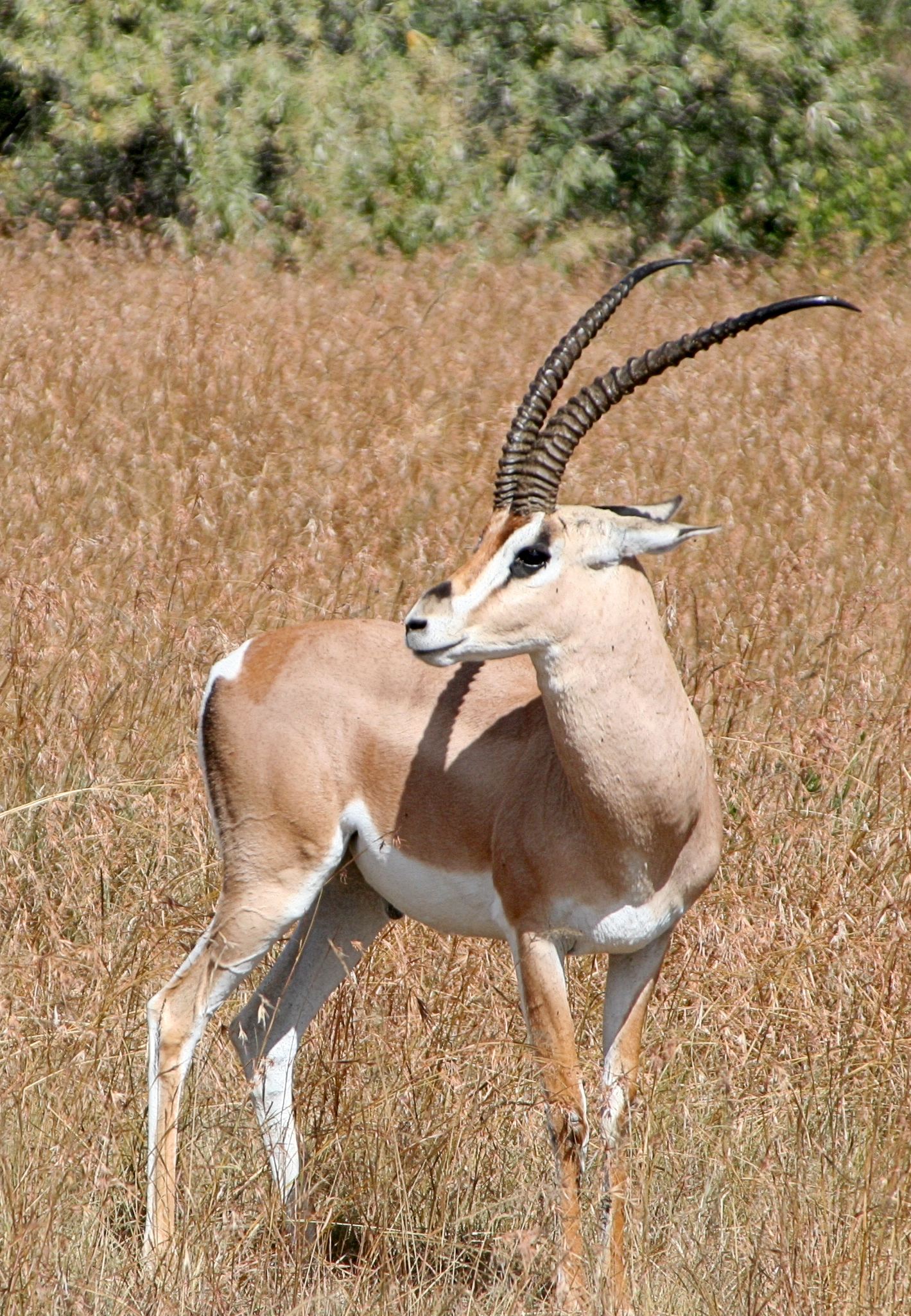 Grant Gazelle Taken in the Masai Mara